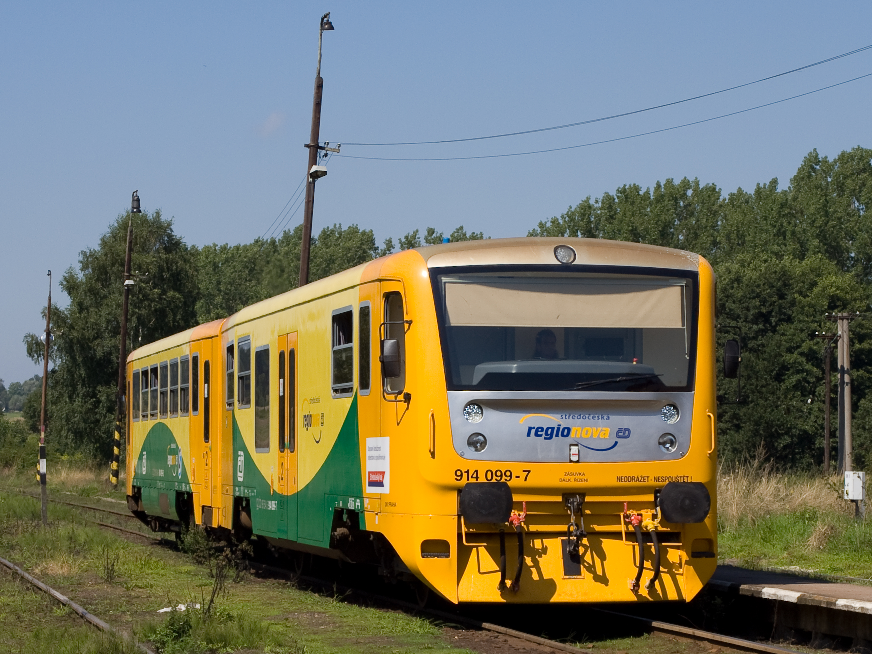 ČD Class 814, Mladějov, Jičín District